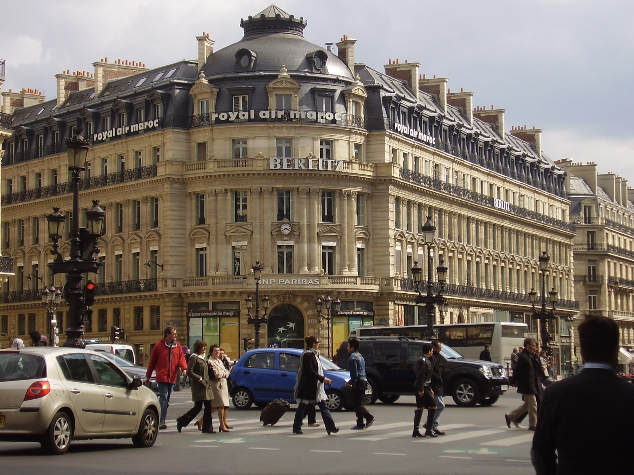 38, Avenue de l'Opéra - The building includes the Royal Air Maroc Paris ticket office, a branch of BNP Paribas, and offices of Berlitz Consulting (Berlitz Opéra)